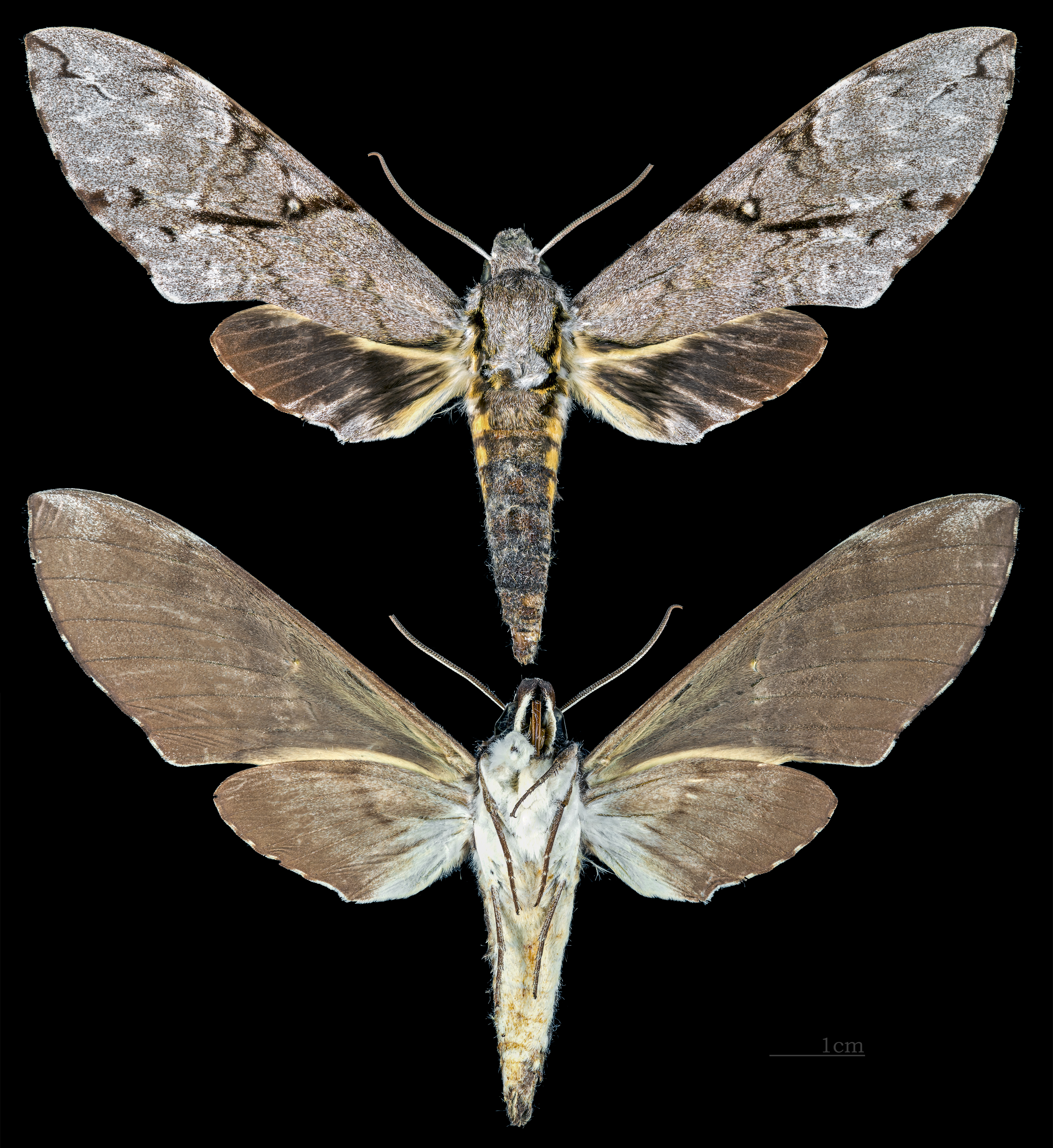 Manduca prestoni - Two views of same specimen